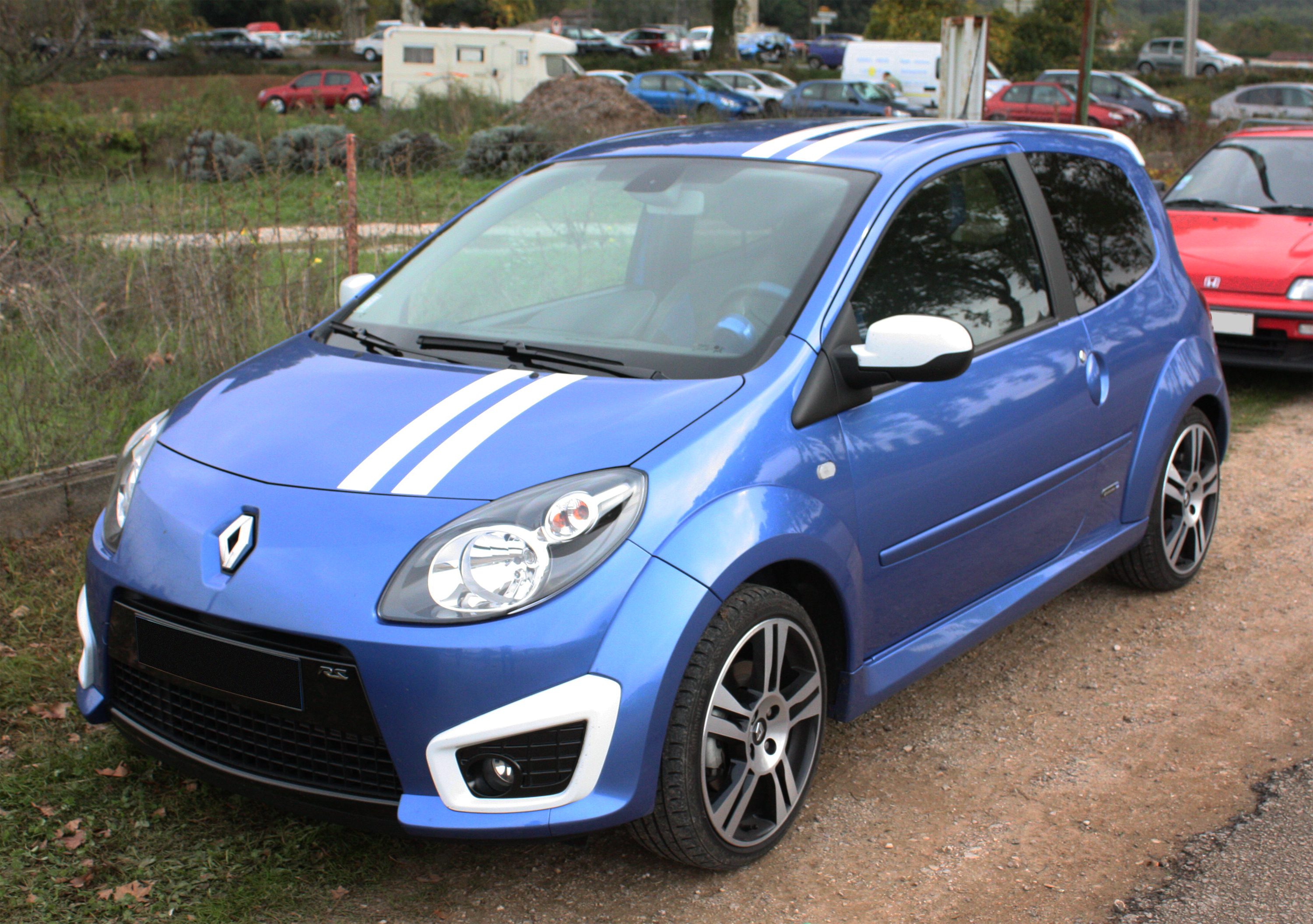 Renault Twingo Gordini